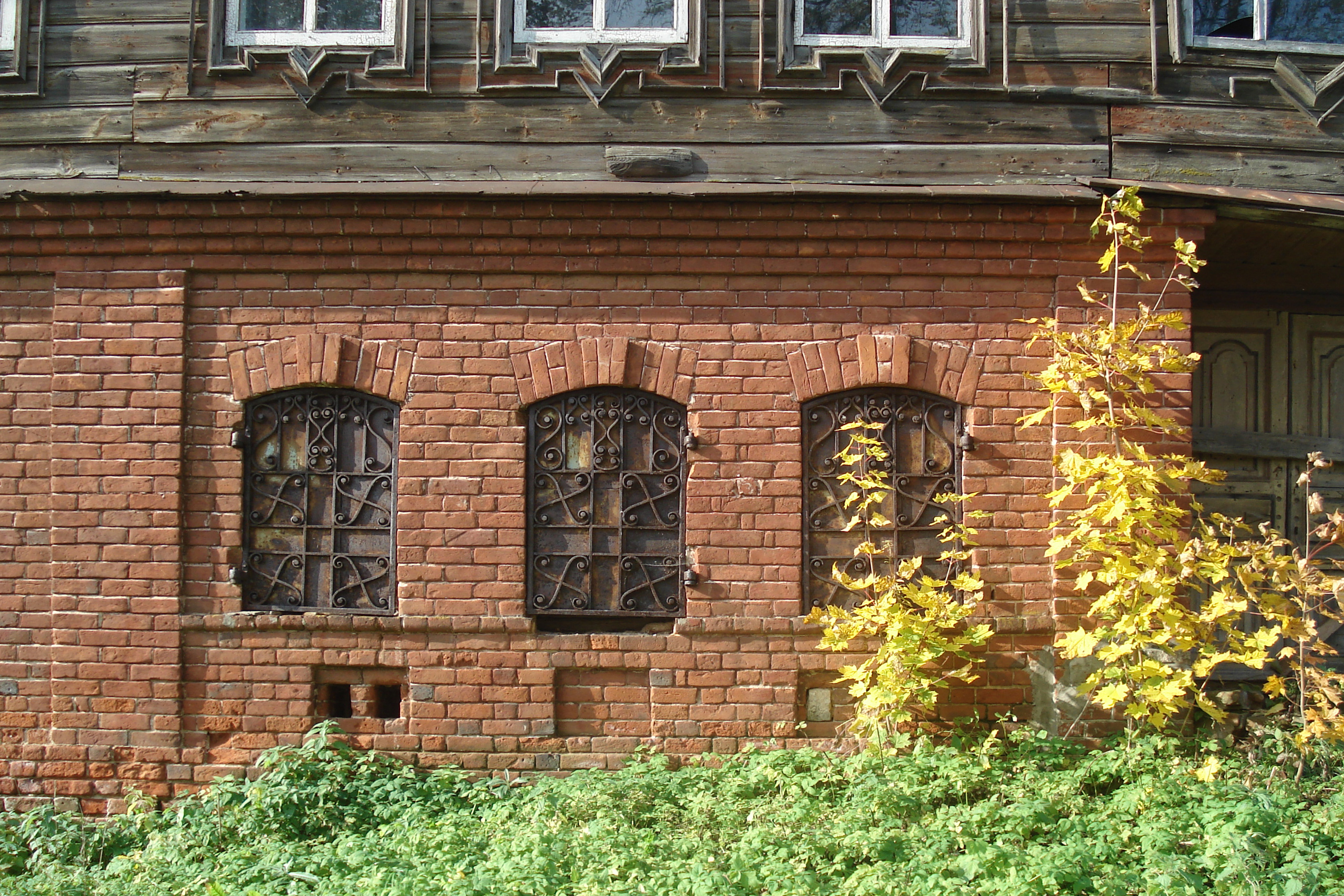 The Village of Sobolevo. Nizhegorodskaya oblast. Russia. The shutter on the ground floor windows.